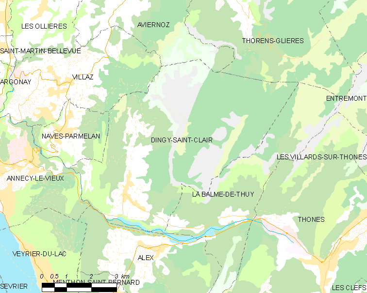 Map of French municipality Dingy-Saint-Clair